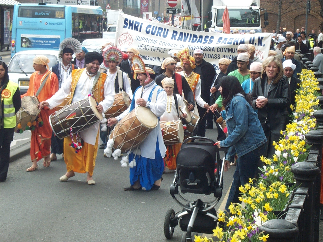 A procession in Bedford, Bedfordshire of members of the Ravidasi religious organisation to mark (belatedly) the birthday of Guru Ravidas.